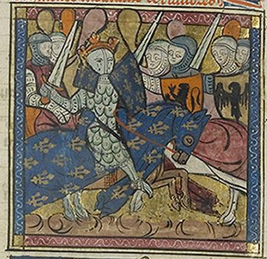 Battle of Bouvines.